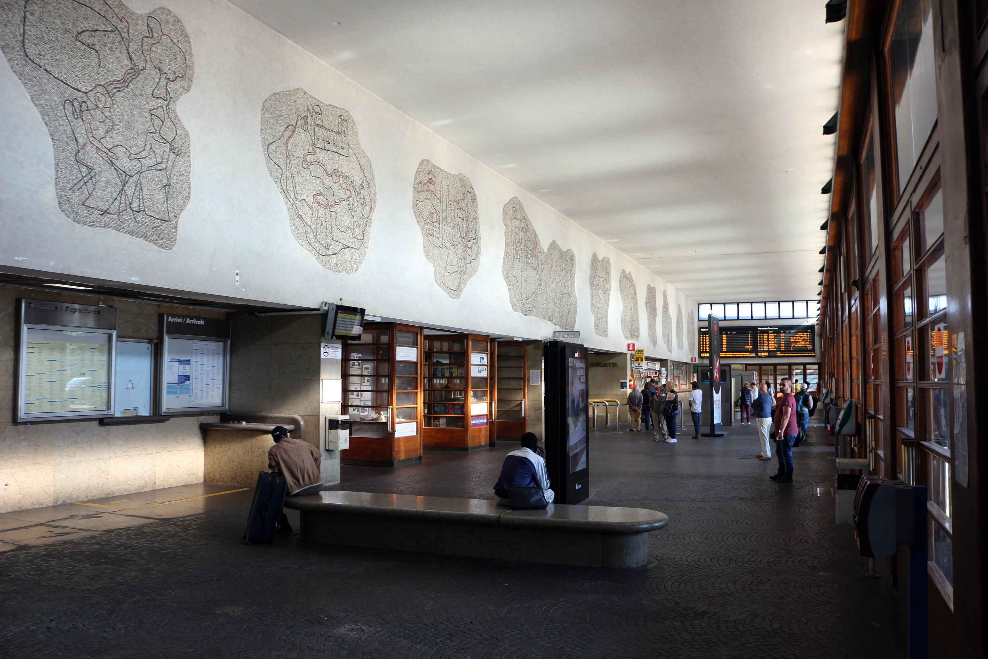 Trento train station